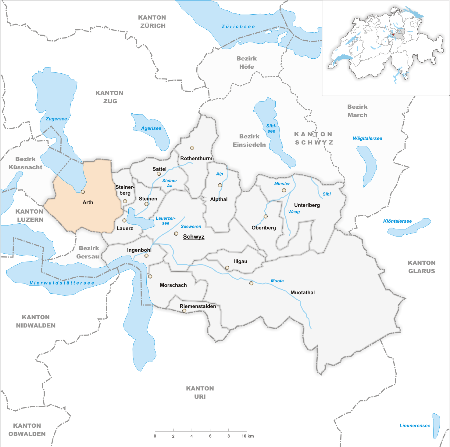 Municipality Arth